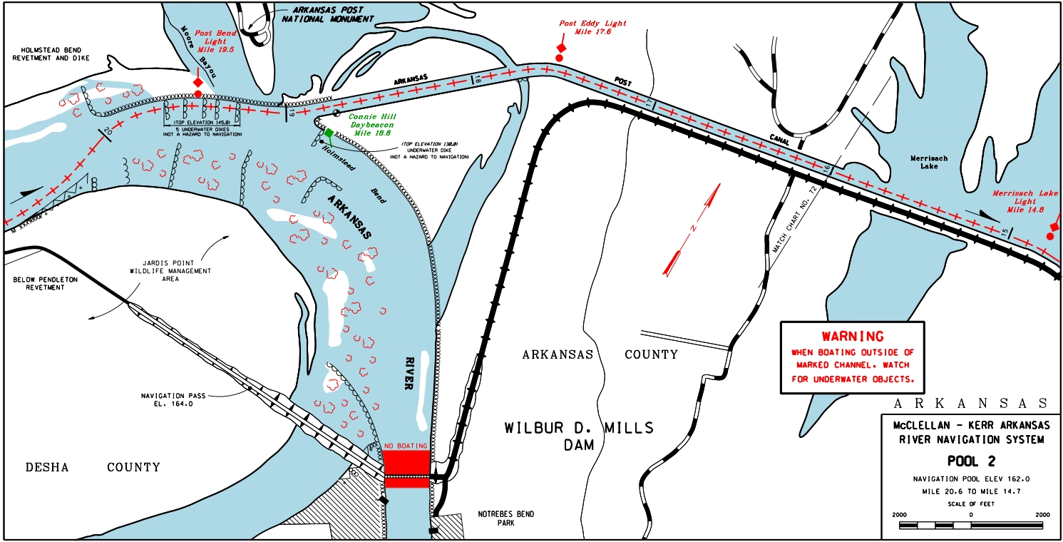 McClellan–Kerr Arkansas River Navigation System, Pool 2, Navigation Chart.